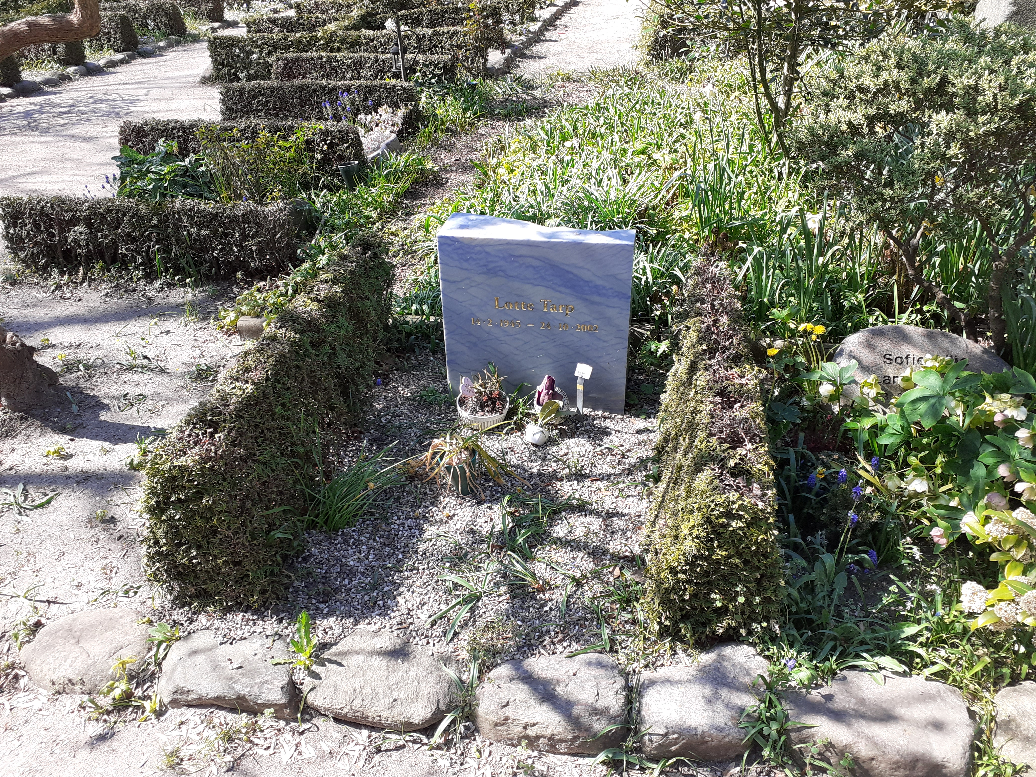 The grave of the actress Lotte Tarp (1945-2002) at Holmens Kirkegård in Copenhagen.